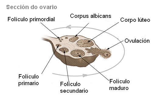 ovarian follicles developement (correct) labelled in Galician